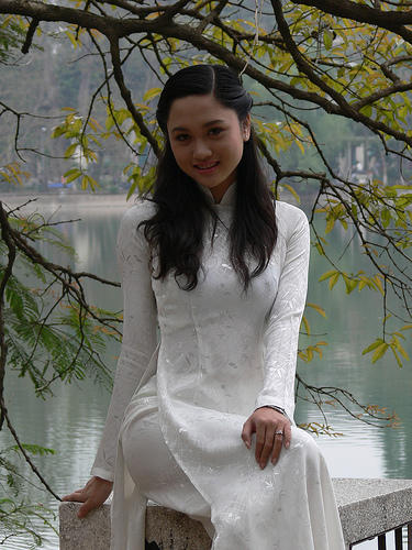 Young woman in a white Áo dài.